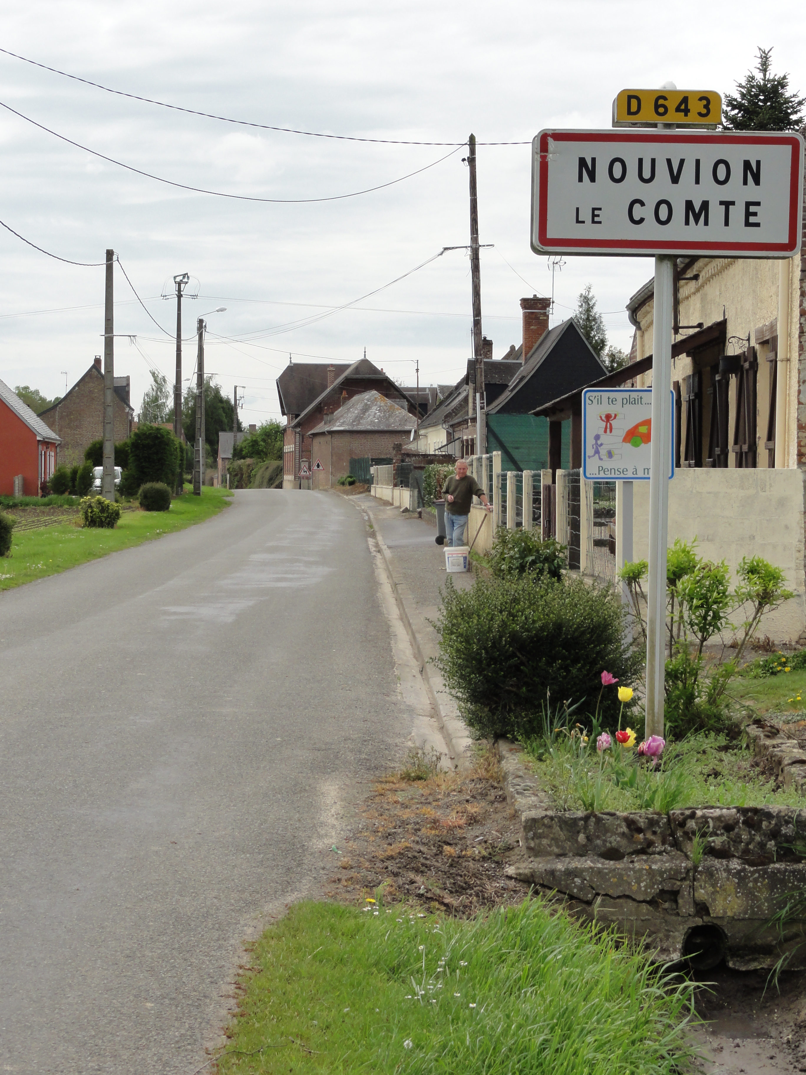 Nouvion-le-Comte (Aisne) city limit sign